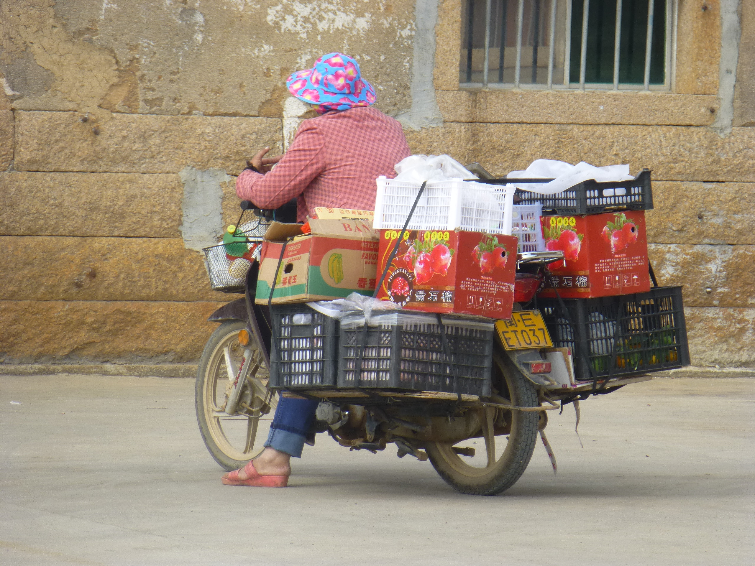 Xidan, a community of renovated traditional homes in Shentu Town, Zhangpu County, Fujian. Here we see a typical door to door vendor visiting the neighborhood; she visits villages, crying out a list of products she delivers.